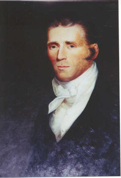 William Lytle, Founder and first President of the University of Cincinnati